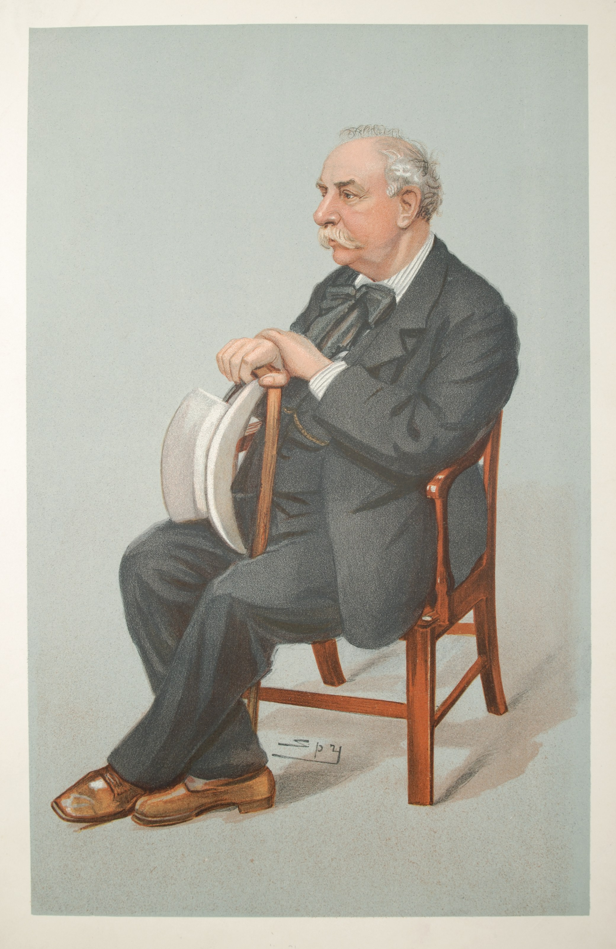 Caricature of Charles Santley (1834-1922). Caption read "Student and Singer".